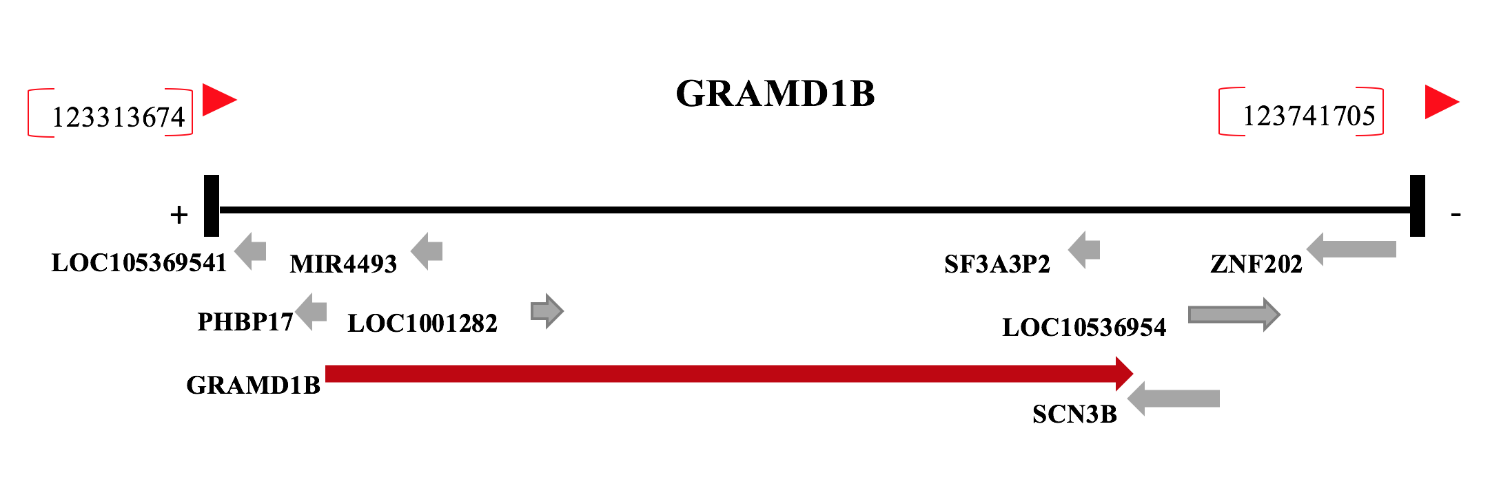 Genes surrounding GRAMD1B on human chromosome 11